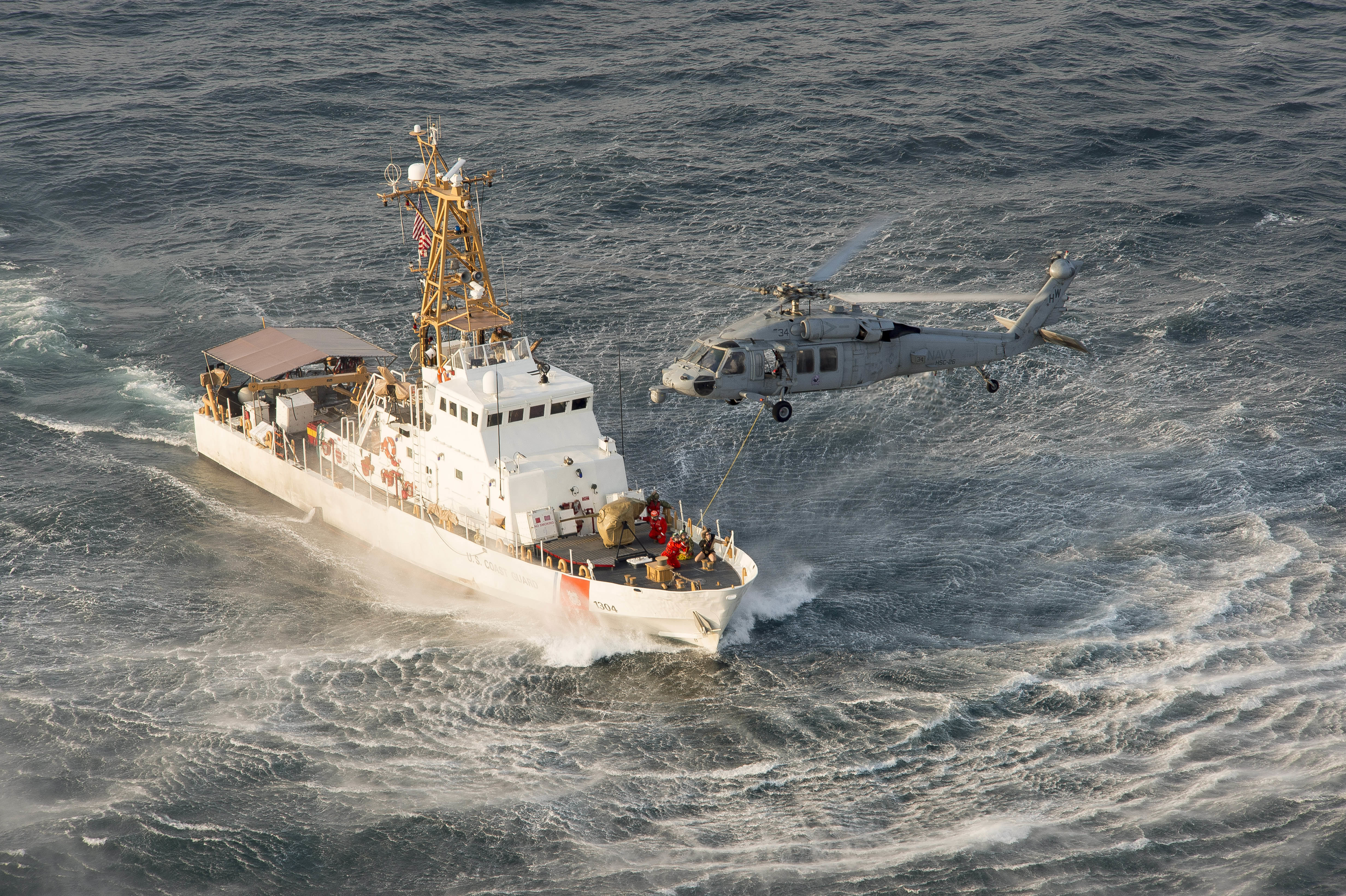 A U.S. Navy Sikorsky MH-60S Seahawk of Helicopter Sea Combat Squadron (HSC) 26, Det. 1, conducts a vertical onboard delivery with the U.S. Coast Guard Cutter USCGC Maui (WPB-1304) off Bahrain. HSC-26 was a forward deployed naval force asset attached to the U.S. Commander, Task Force 53 to provide combat logistics and search and rescue capability throughout the U.S. 5th Fleet area of responsibility.